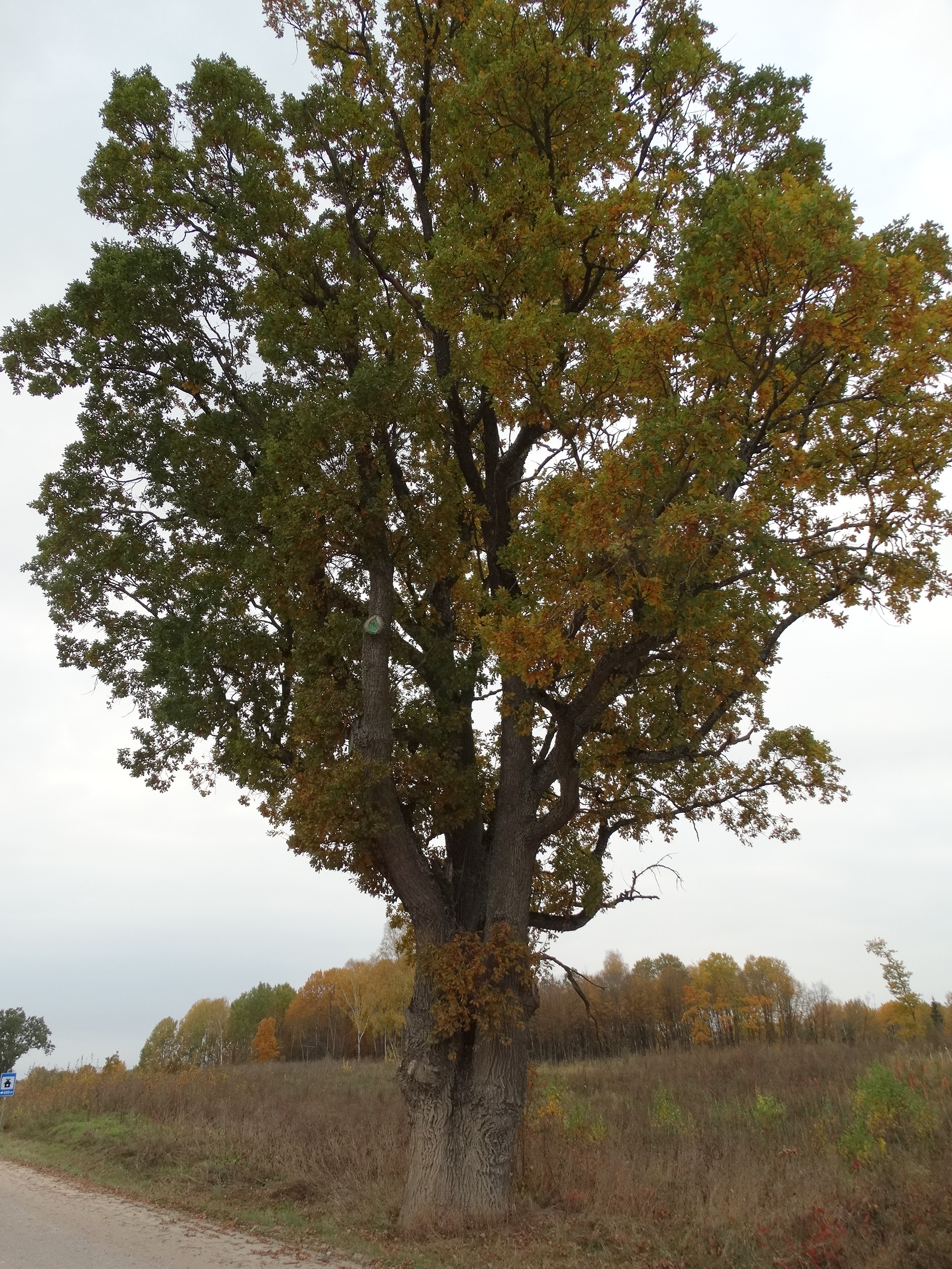 Oak, Paveisiejai, Lazdijai District, Lithuania